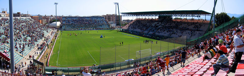 Panoramic view of Stadio Oreste Granillo